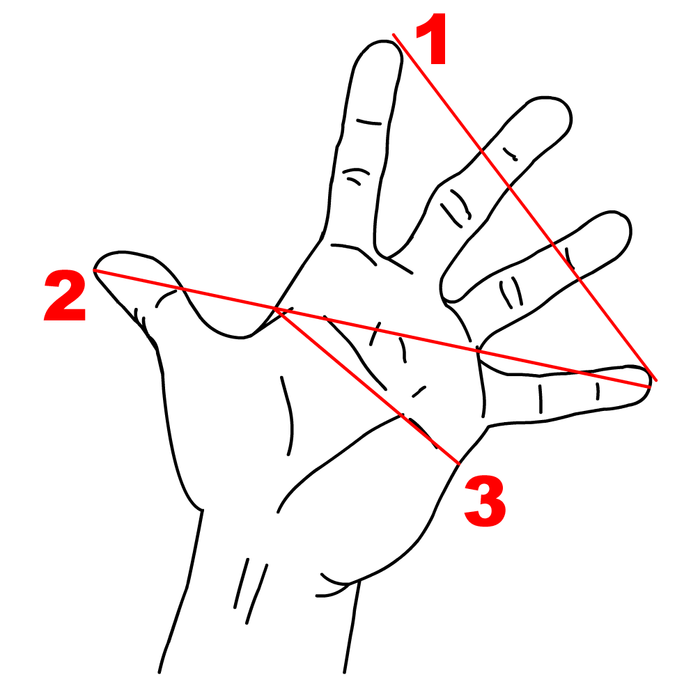 The measures of the hand. Palm (Please note that in English, a "Palm" is commonly used to represent four fingers held together, not apart as viewed in this image.) Span Hand